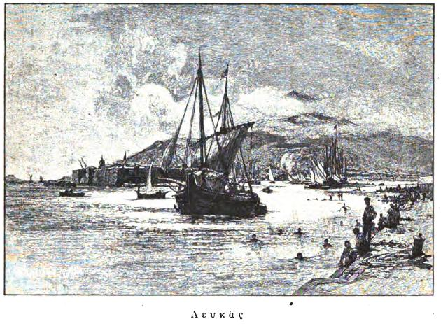 Hestia (1876) Author: Diomedes, Paulos Subject: Greek literature, Modern; Greek periodicals Publisher: [Athēnēsi : s.n. Year: 1894 Possible copyright status: NOT_IN_COPYRIGHT Language: Greek Digitizing sponsor: Google Book from the collections of: Harvard University Collection: americana]